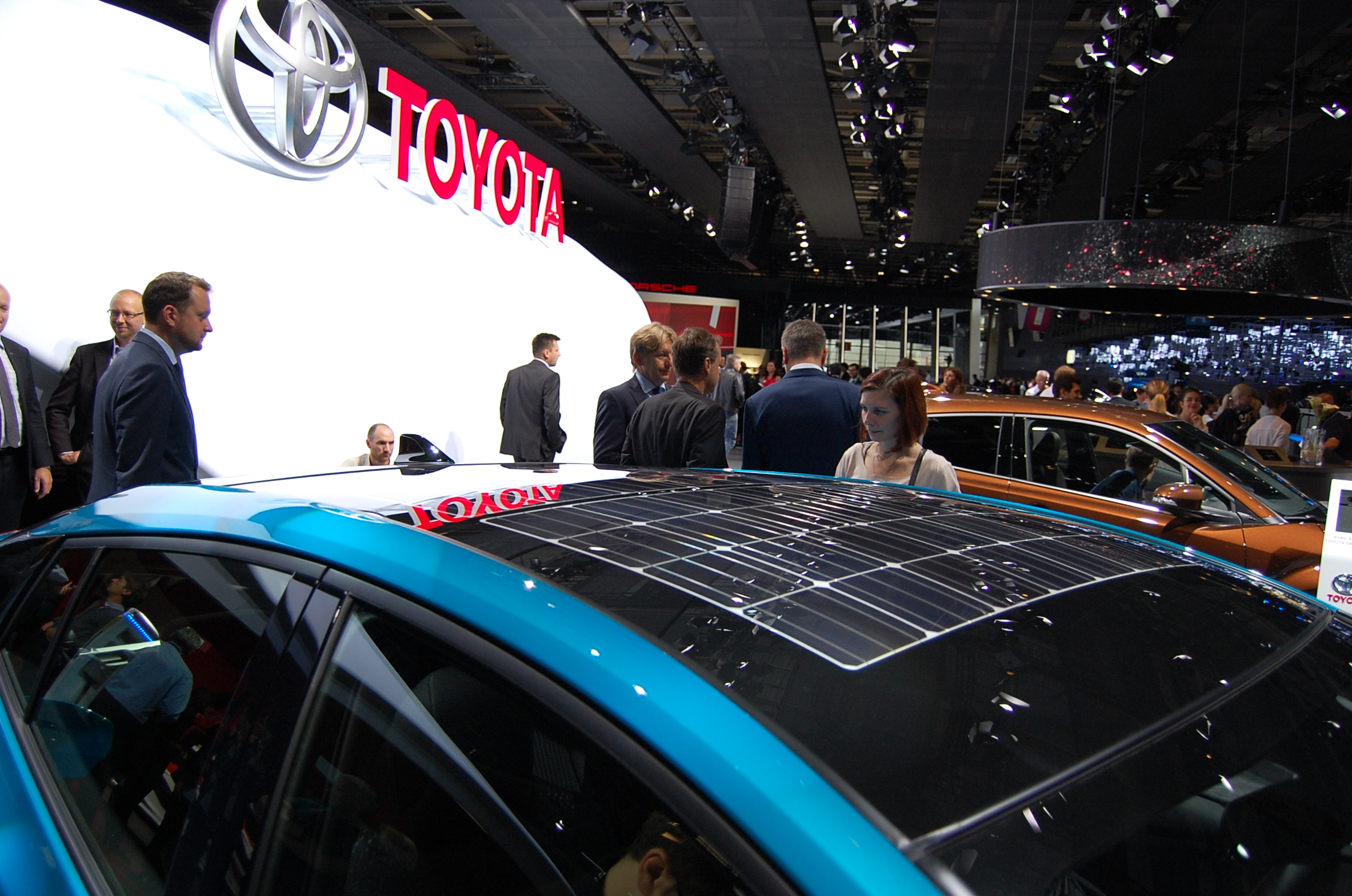 Toyota Prius Plug-in Hybrid (Prius Prime) at the Paris Motor Show - September 2016. The solar cell on the roof of the car